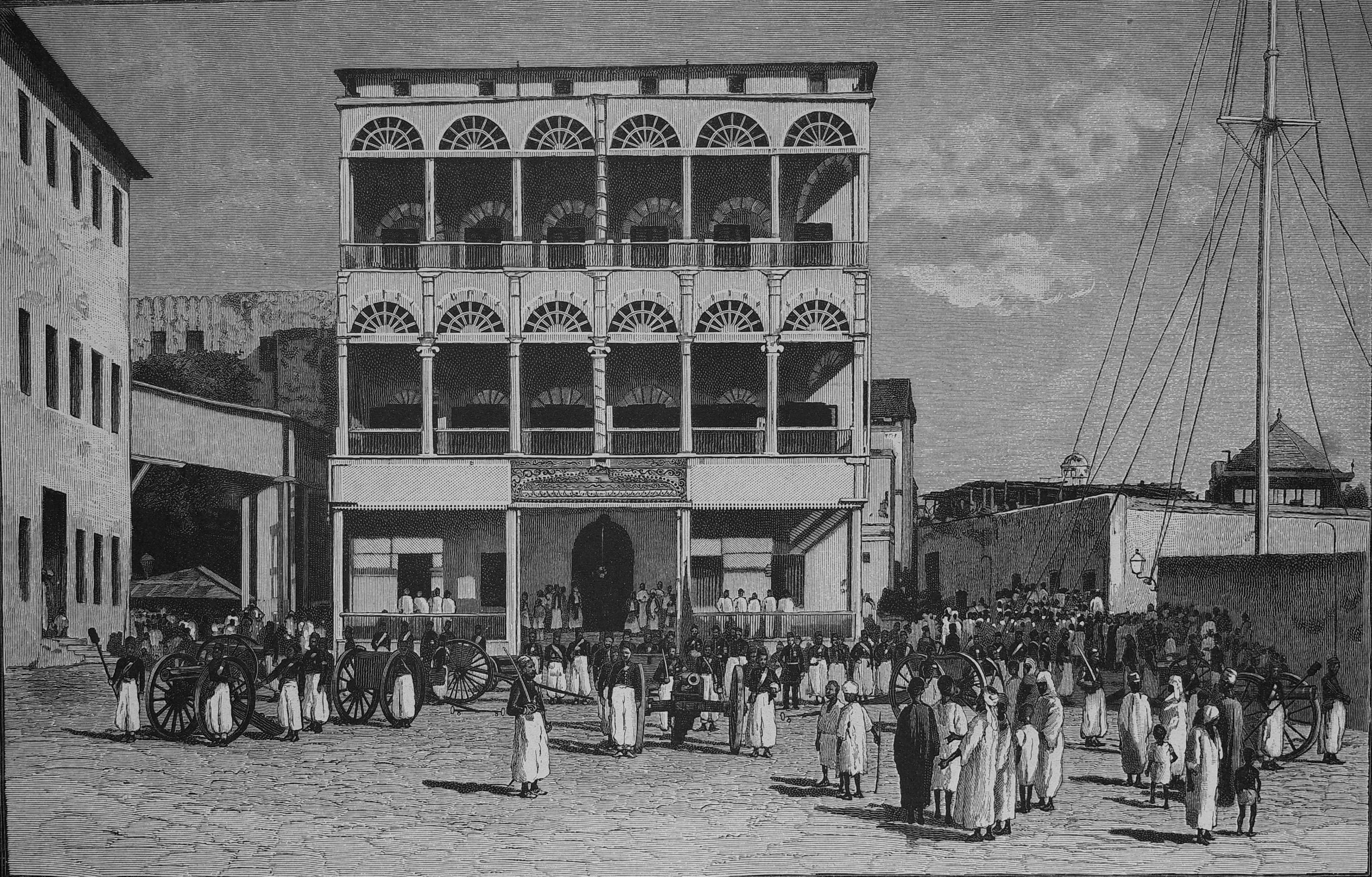 caption: "„Persische Artillerie“ vor dem Palast des Sultans in Sansibar."